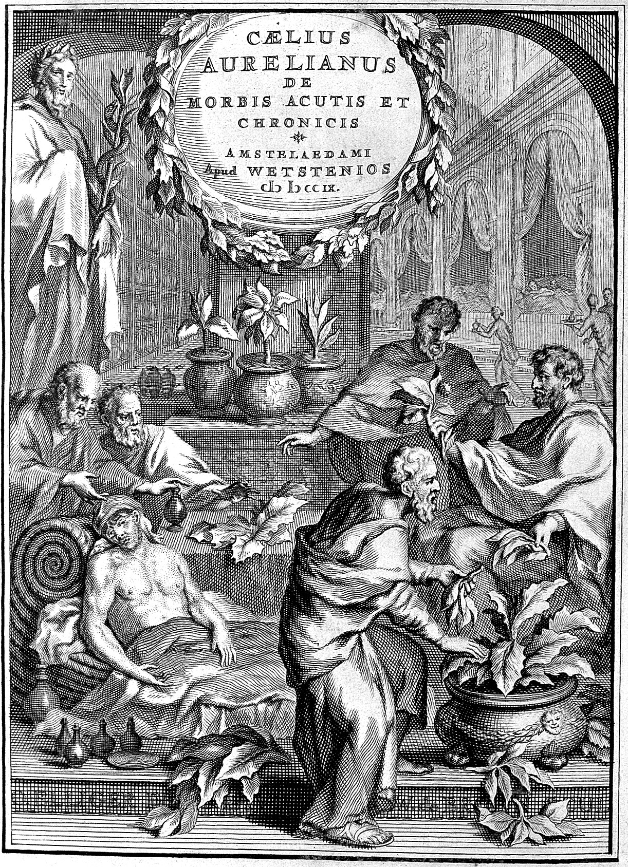 Asclepius (upper left) and sick people being treated with herbs. Engraving & text.